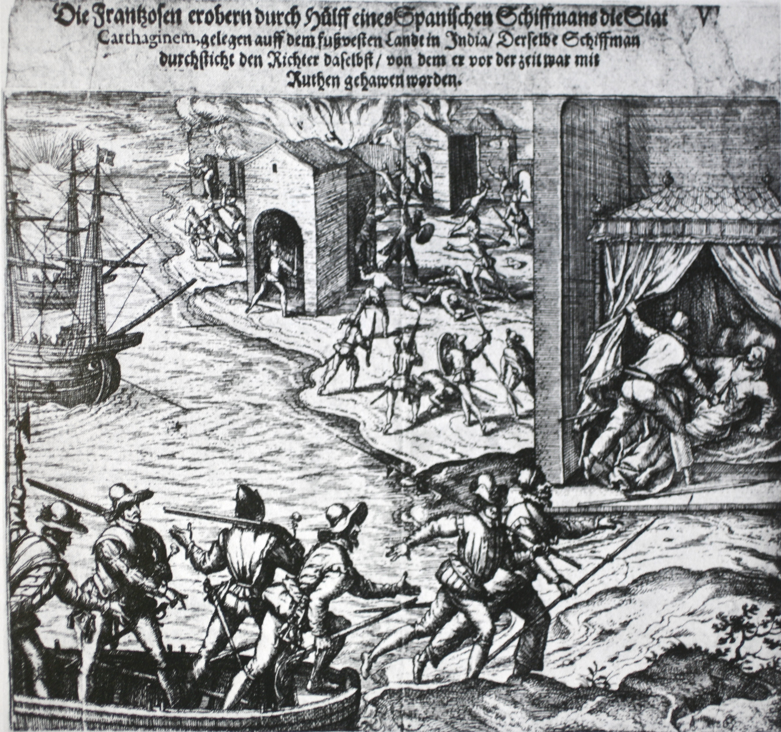 Plunder of Cartagena by the French in 1544